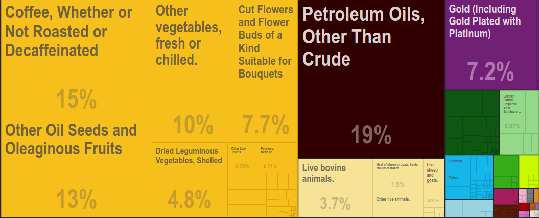 Ethiopia Export Treemap from MIT Harvard Economic Complexity Observatory with HS02 and HS4 depth.